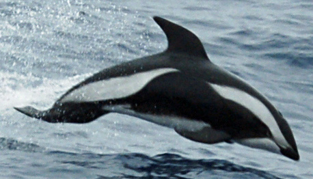 Hourglass Dolphins in Drake Passage. The original version has been edited by adjusting brightness and contrast and cropping.